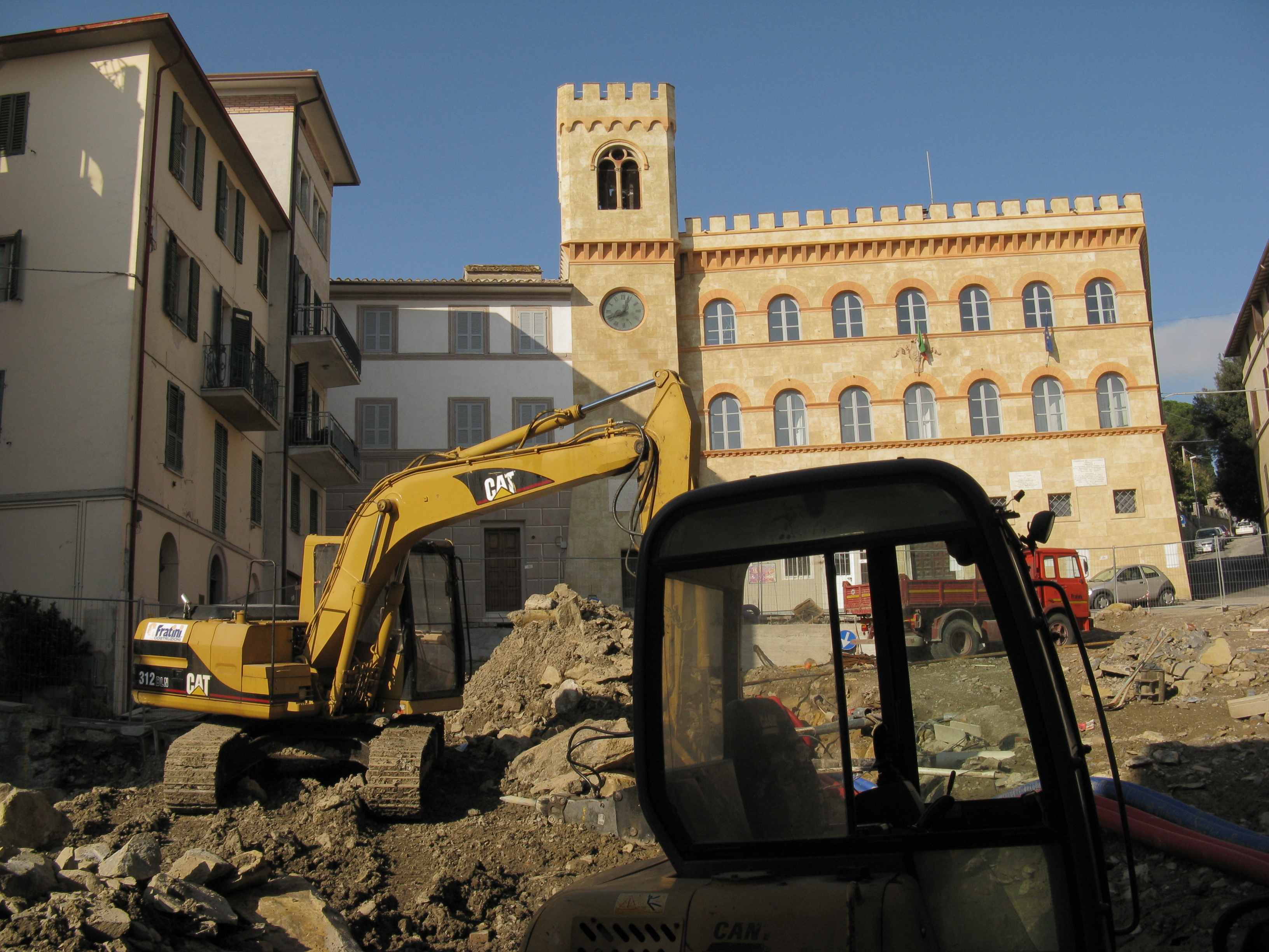 Road works in front of the Magione town hall.